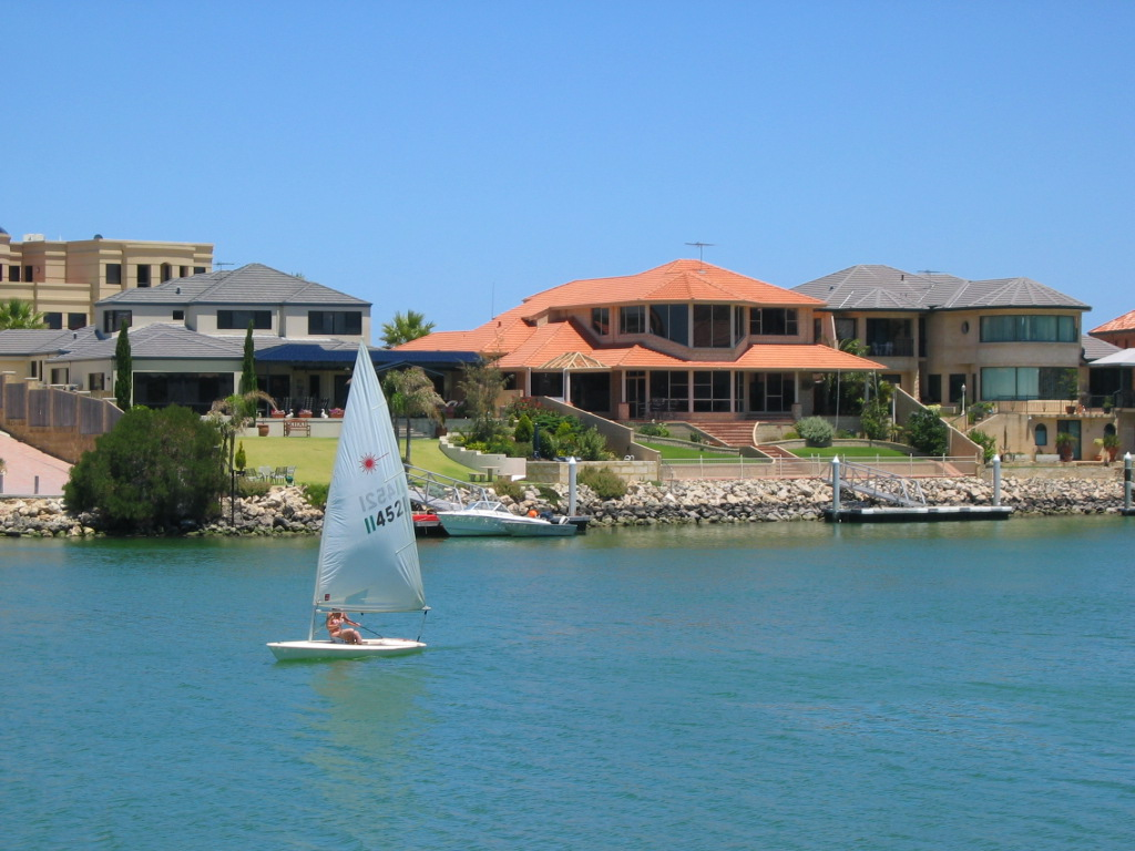 Yacht on canal in Mindarie Keys marina at Mindarie, Western Australia.